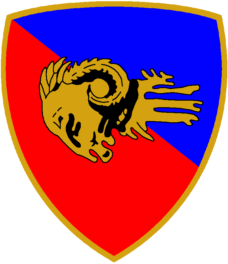 Coat of Arms of the Italian Army Armoured Brigade Ariete